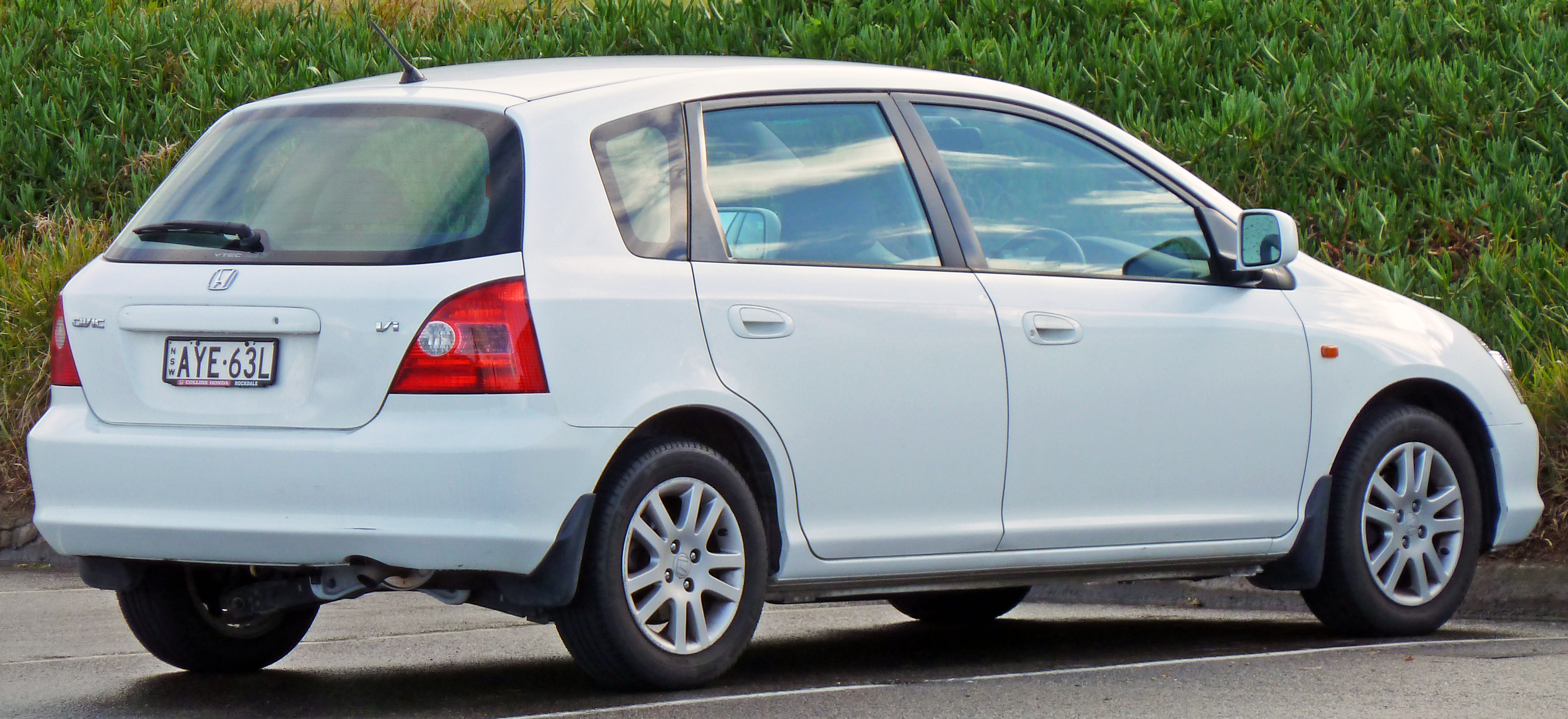 2003 Honda Civic (EU3 MY03) Vi 5-door hatchback. Photographed in Cronulla, New South Wales, Australia.